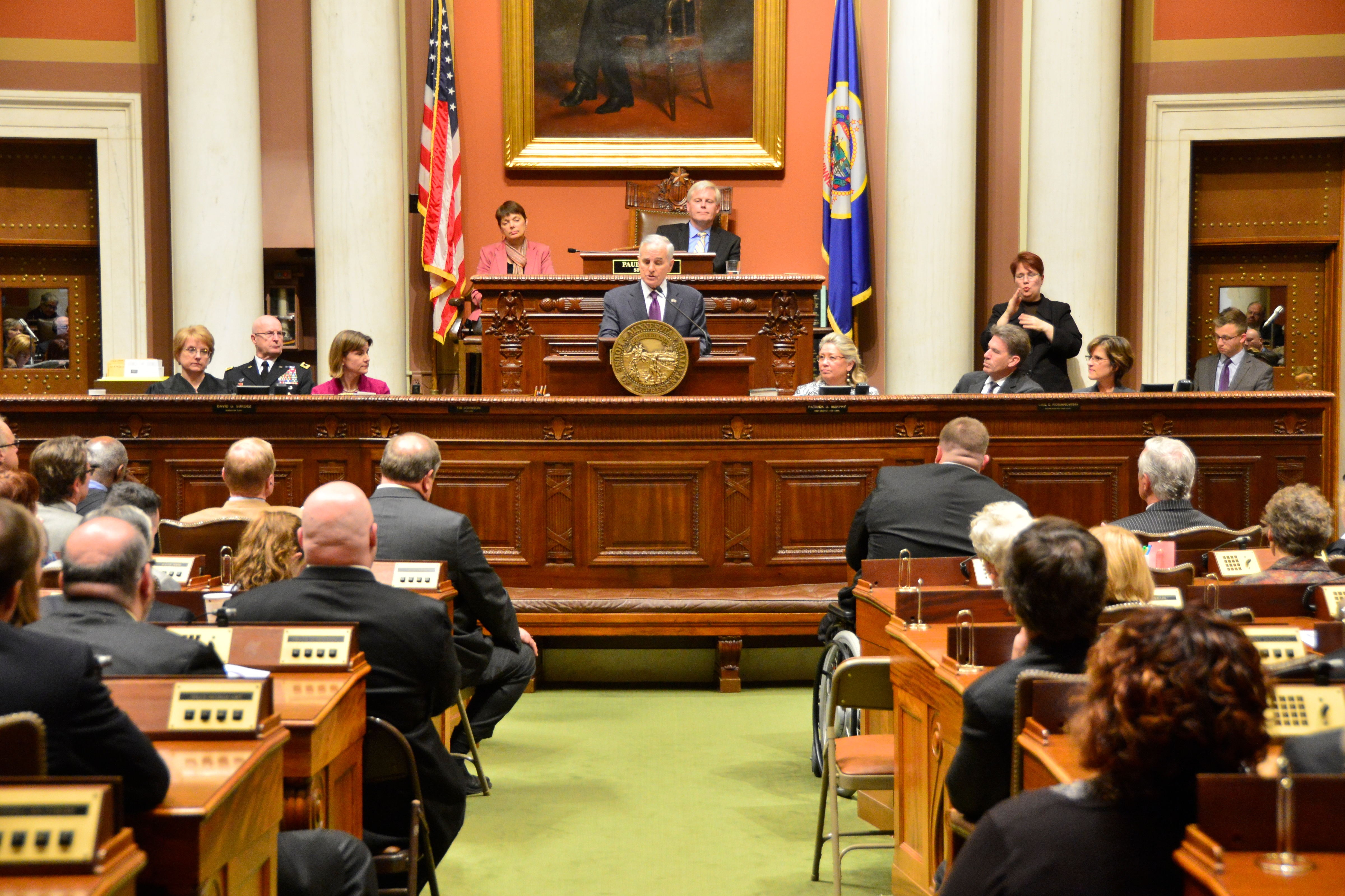 SAINT PAUL, Minn. - Leaders from across the state gather for Governor Mark Dayton's 2014 State of the State address at the Capitol Apr. 30. The Minnesota National Guard has a ceremonial role in the annual event.